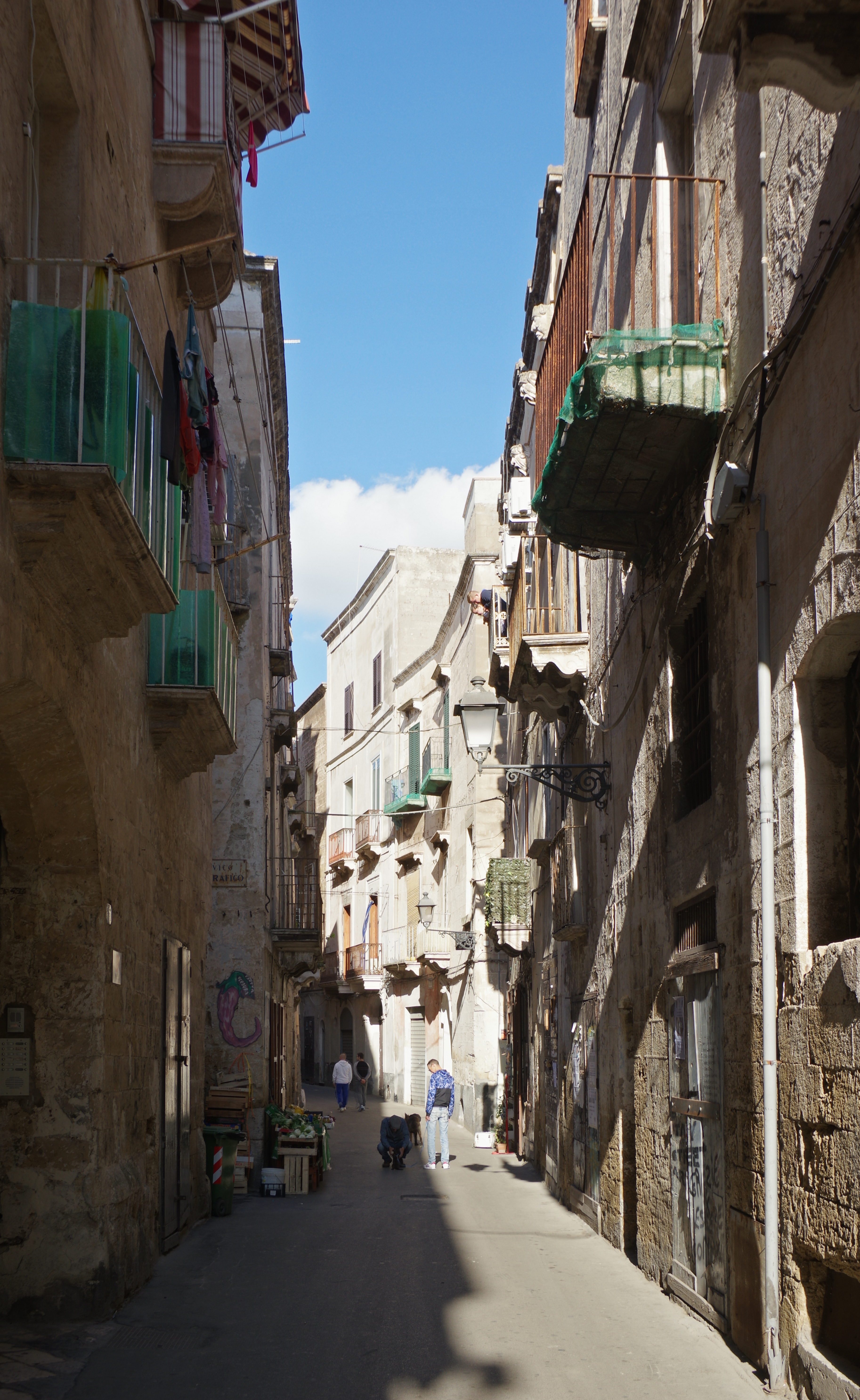 Italy, Taranto, Via Duomo